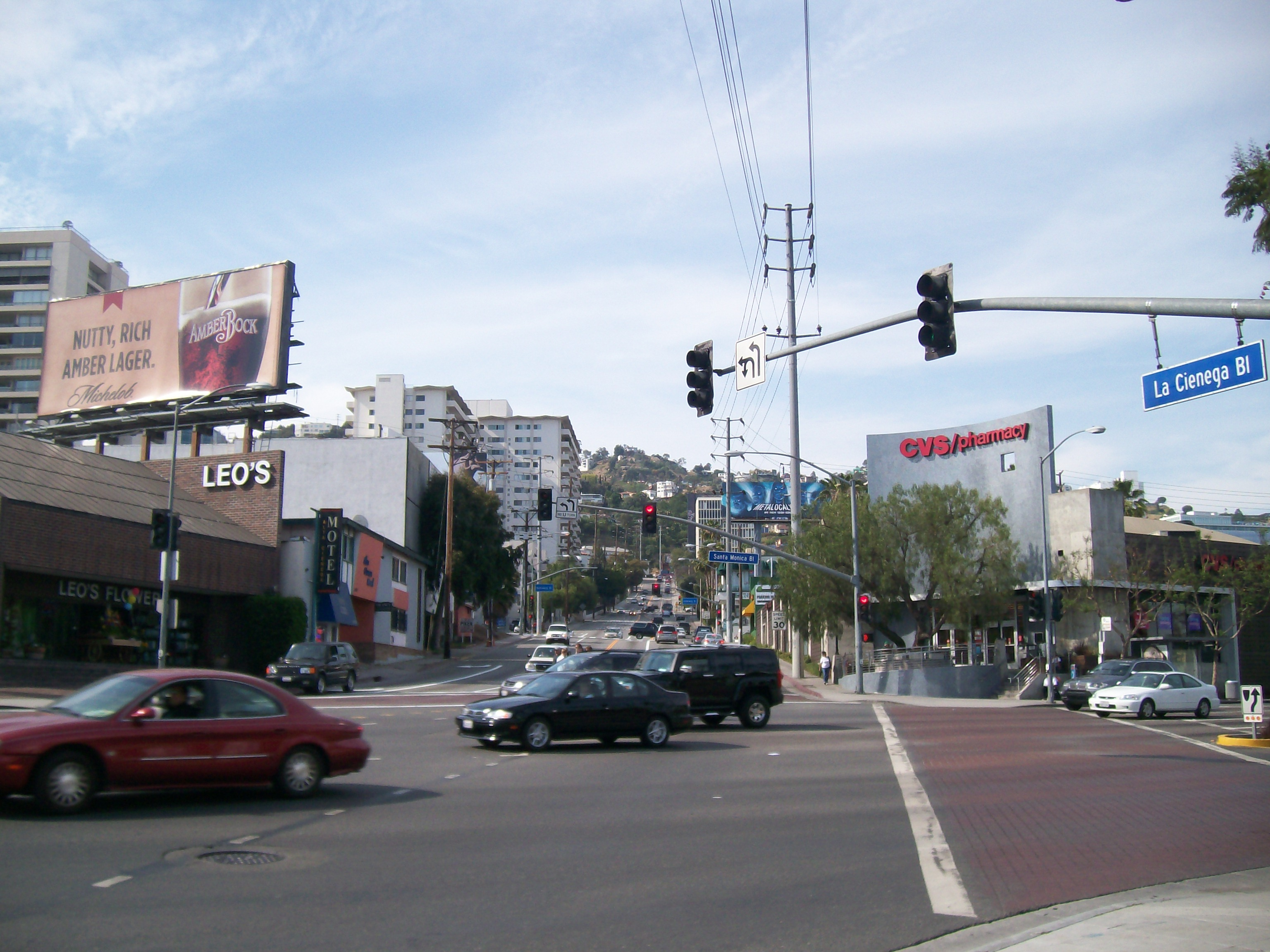 View looking north on La Cienega Blvd. at Santa Monica Blvd., West Hollywood